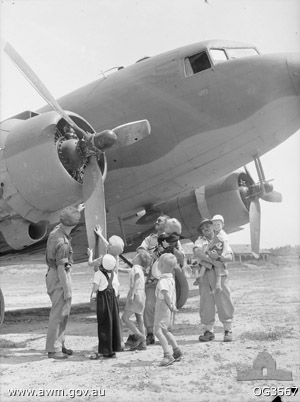 Australian War Memorial Caption: Kuching, Sarawak. 1945-09-18. Most of the internees at the Kuching Camp were flown to Labuan in RAAF Douglas C47 Dakota aircraft - on one day ninety nine passengers were carried. Many of the internees were making their first trip by air, one of the oldest being a 71-year old mission sister. The English children were wildly excited at the prospect of flying home and asked all the questions imaginable about how the pilot flew the aircraft. The RAAF aircrew are: 437037 Warrant Officer (WO) Malcolm Wheaton of Wanbi, SA; 466300 Sergeant Hector James of Moora, WA; 31005 WO Stafford Mackey of Sandy Bar, Tas.